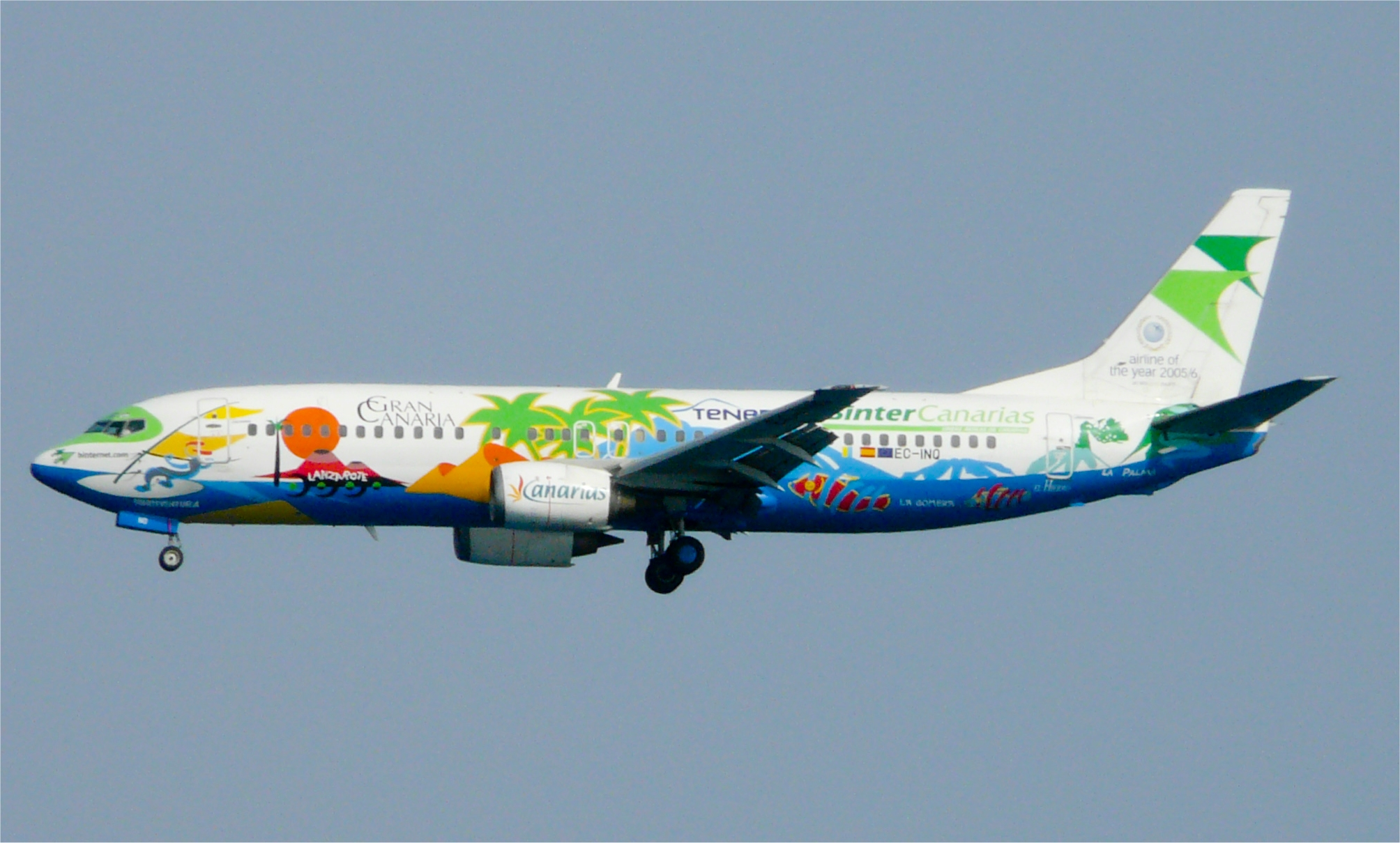 Binter Canarias B737